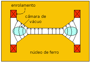 Betatron accelerator